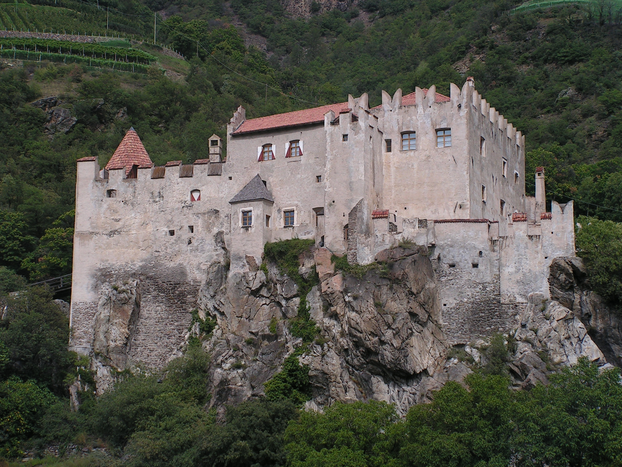 The Castle of Kastelbell-Tschars in South Tyrol.